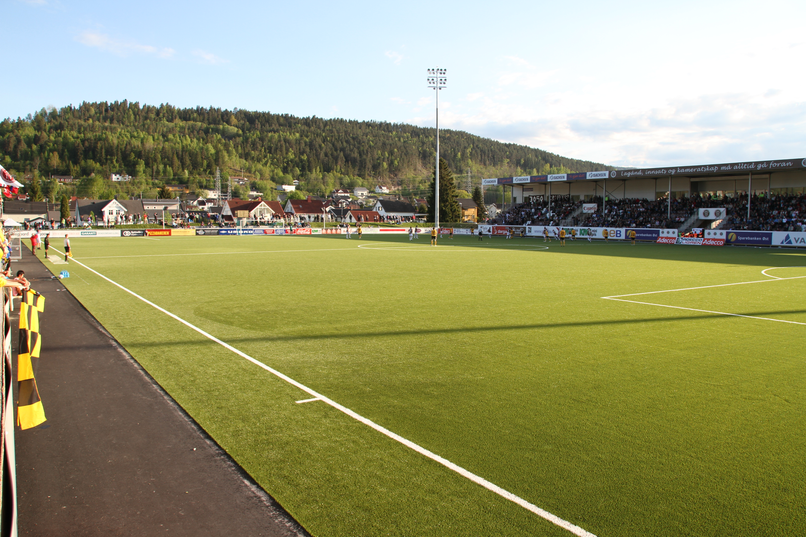 Mjøndalen Stadion (Norway) with match between Mjøndalen IF and IK Start. May 20, 2012.